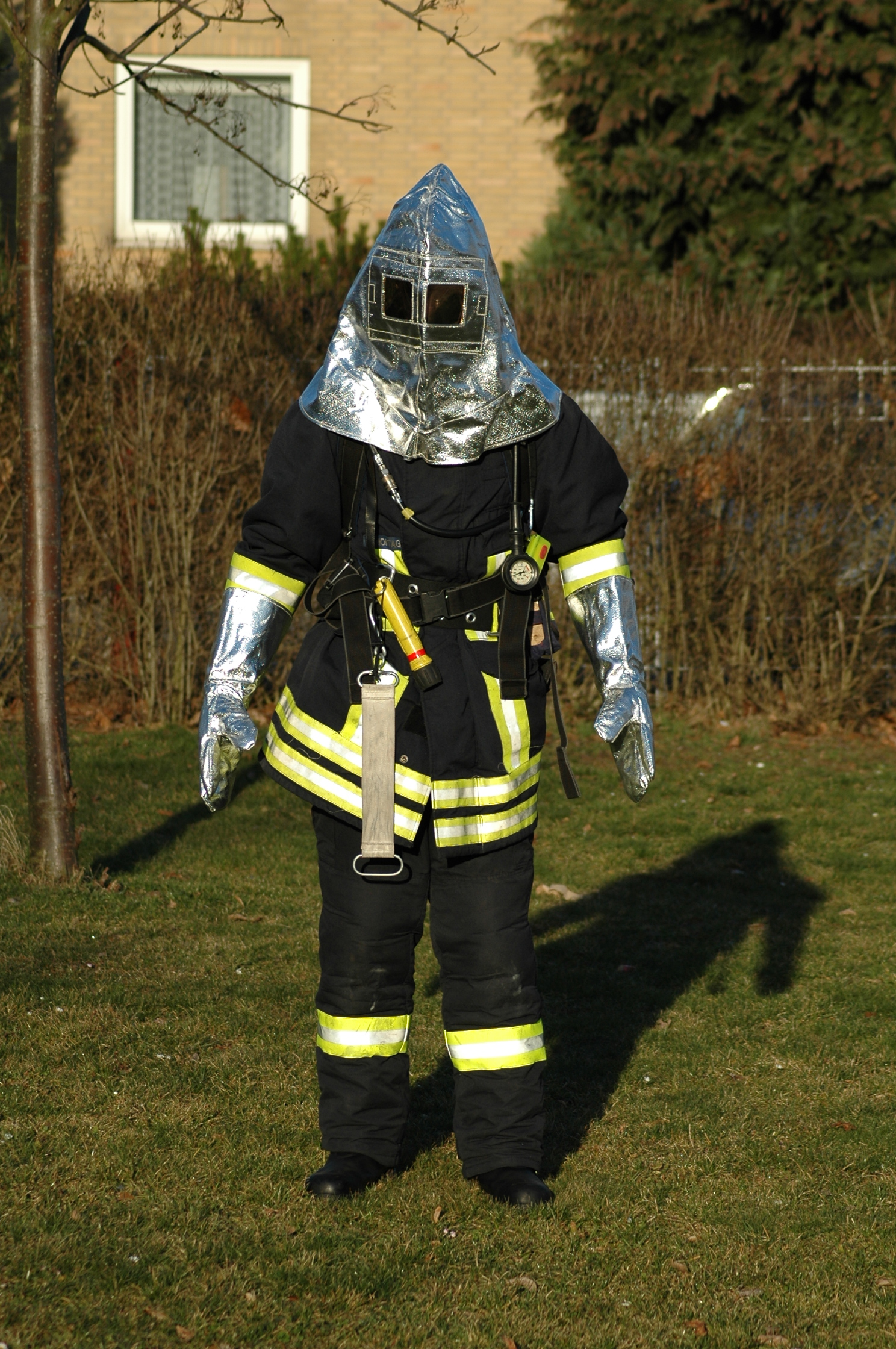 Hitzeschutzanzug Form I, Göttingen, Germany